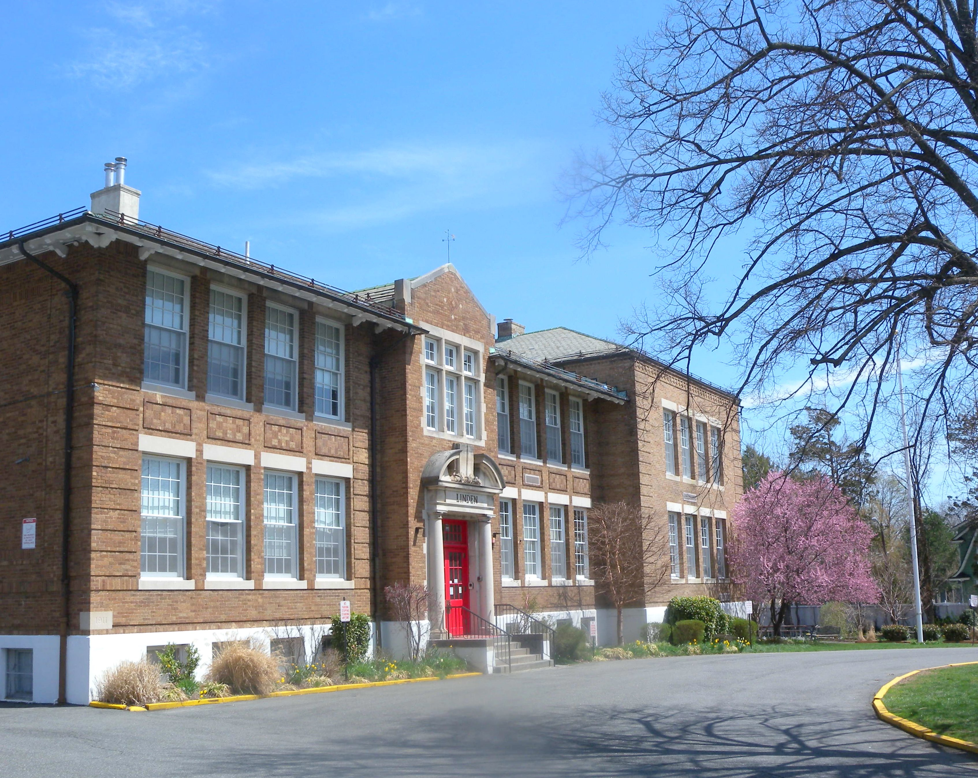 Looking east at Linden School in Glen Ridge on a sunny midday.